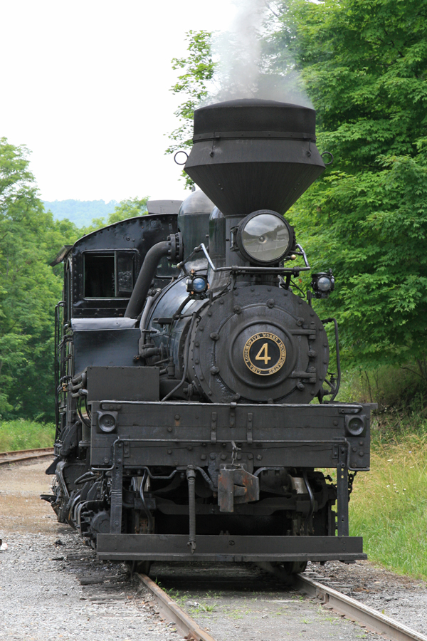 Cass Shay #4.